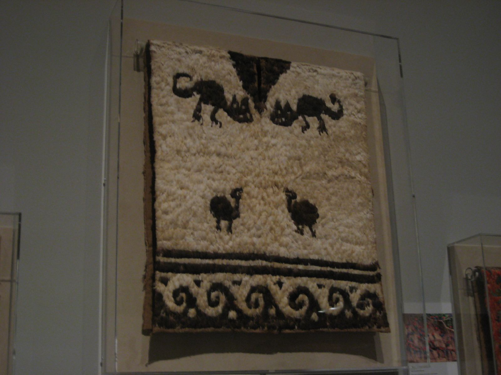 15th-16th century Chimu tabard (short coat) from Peru. On display in the "Peruvian Featherworking" mini-exhibit at the Metropolitan Museum of Art, New York.